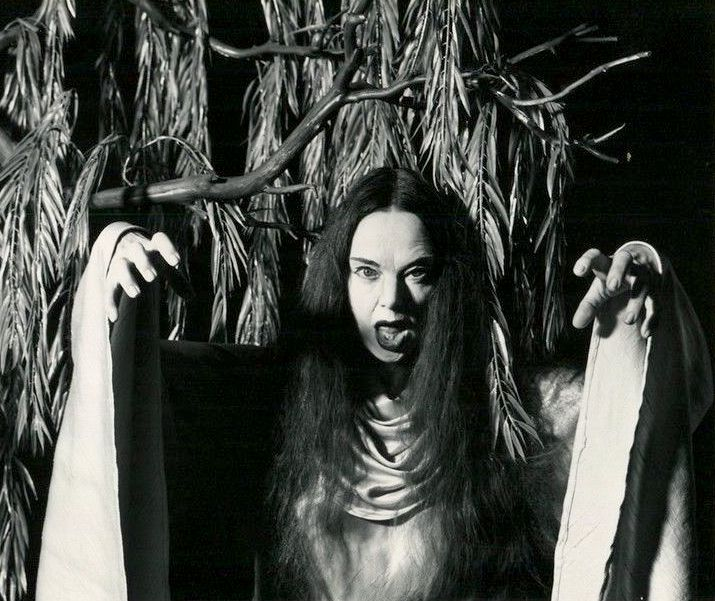 Portrait of Carroll Borland, dated 1950 (film is Mark of the Vampire, 1935).